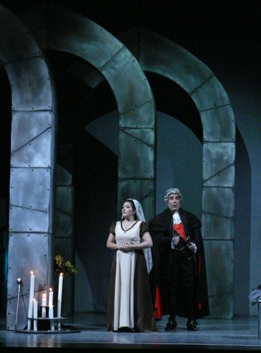 Tosca - Puccini